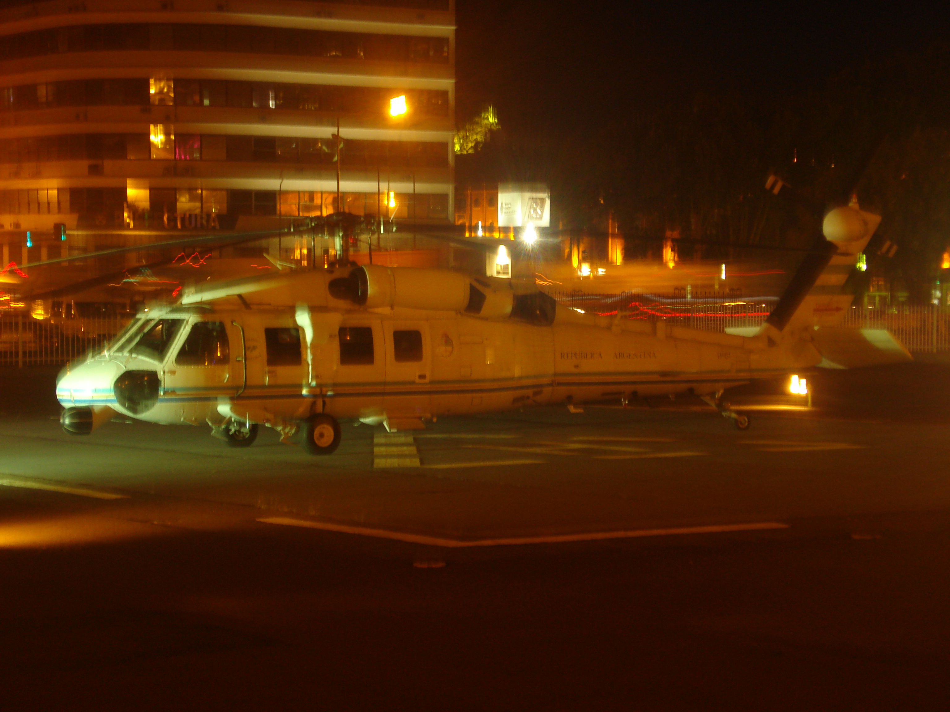 H-01 Presidential Helicopter Argentina